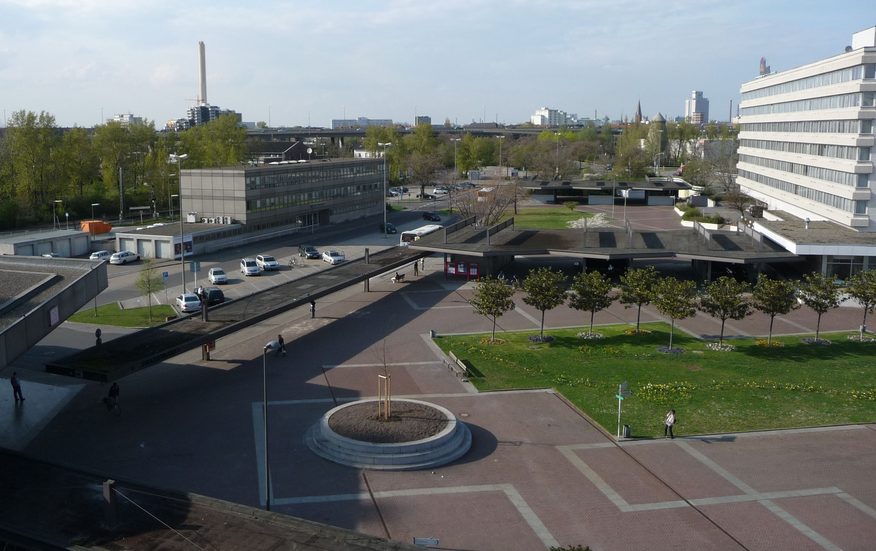 main station of Ludwigshafen, Germany